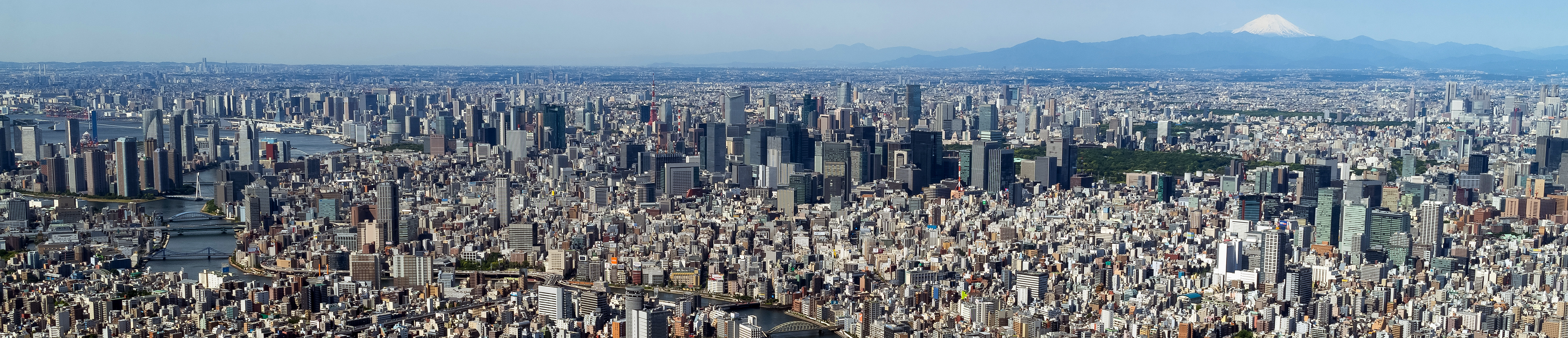 Clear view of Tokyo from the top of the SkyTree